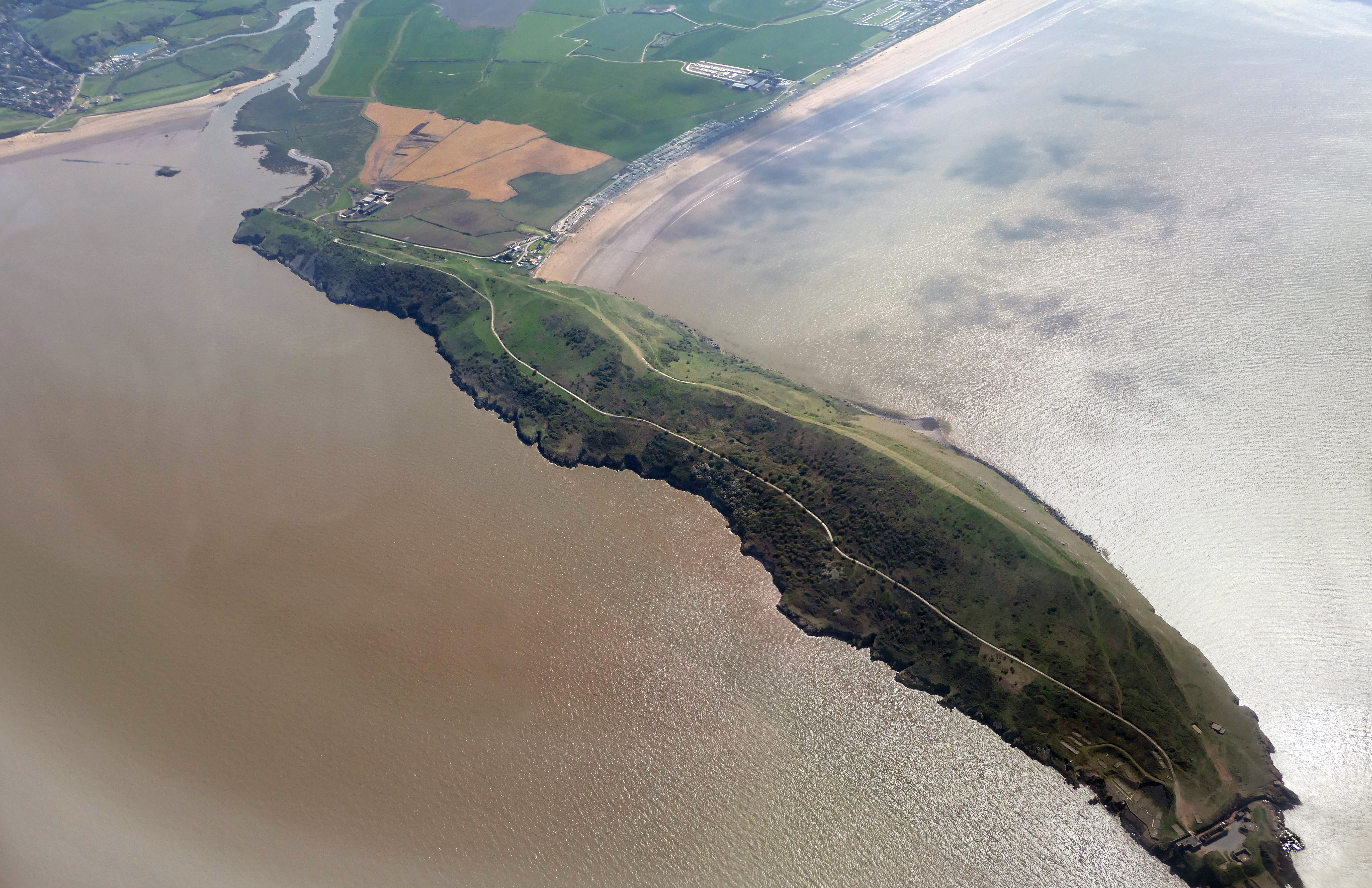 An aerial view of Brean Down, Somerset, England.